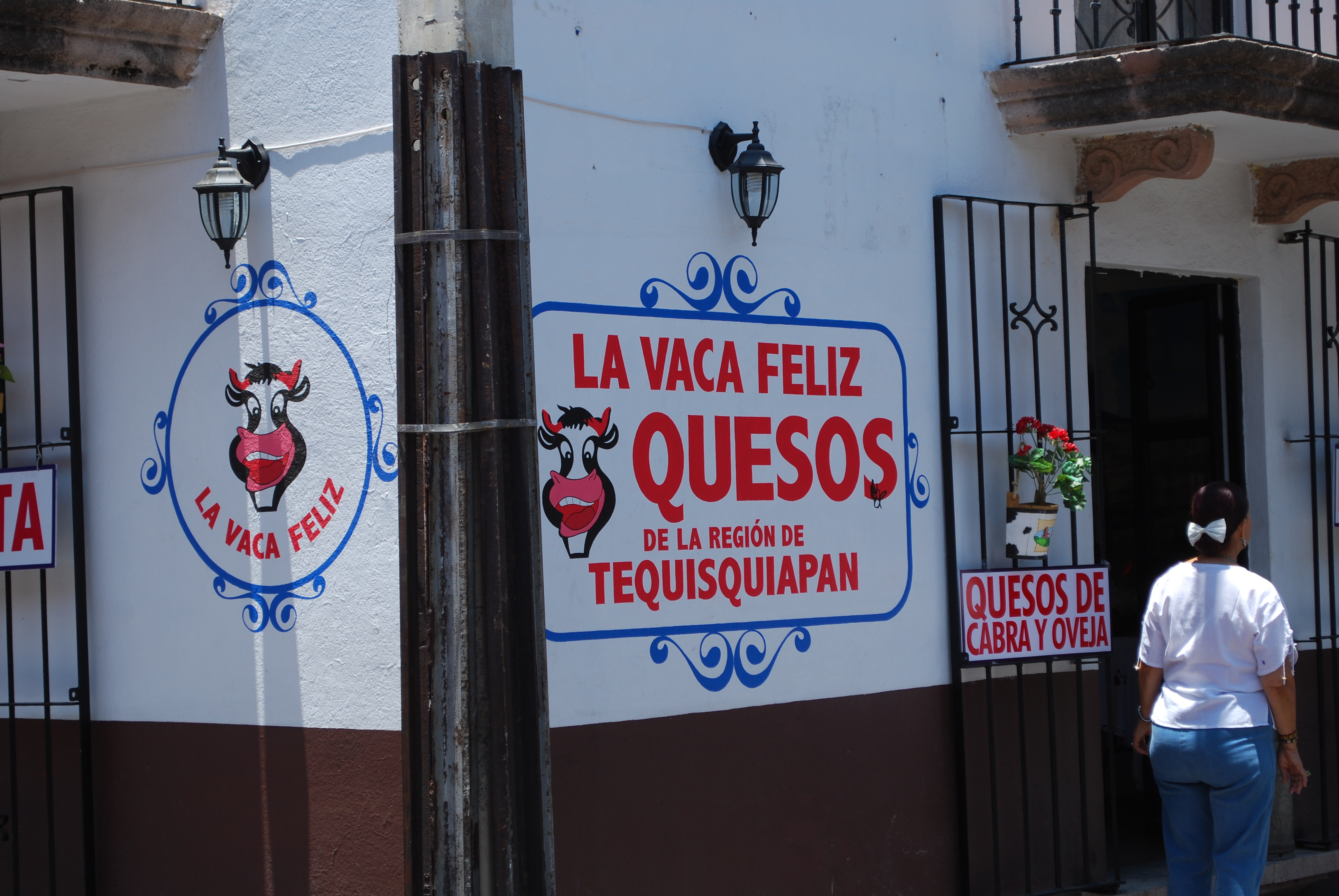 La Vaca Feliz cheese store in Tequisquiapan, Queretaro,Mexico